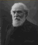 Giuseppe Sergi (d.1936)